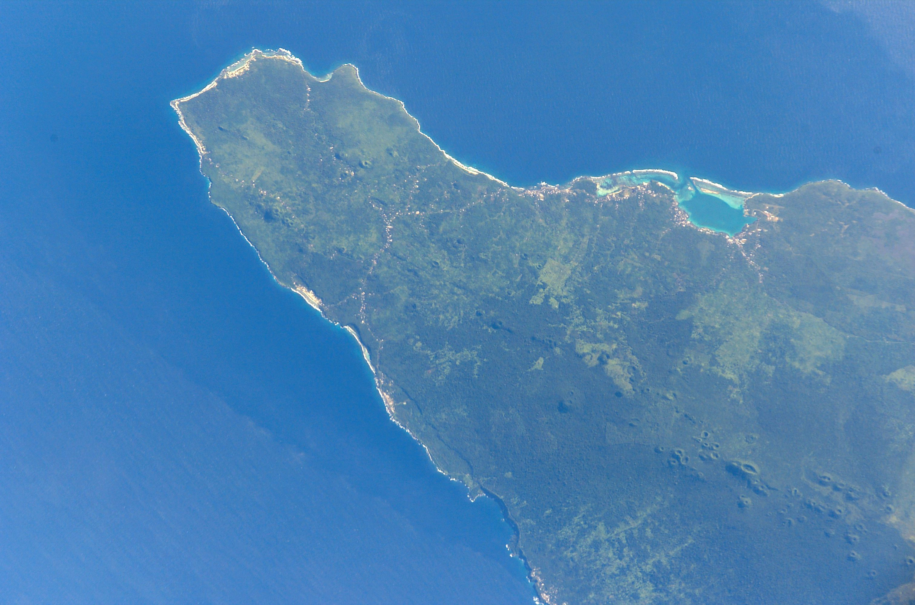 West end of Savai'i Island, Samoa showing Falealupo and Asau Bay, Vaisigano District. Taken from NASA spacecraft